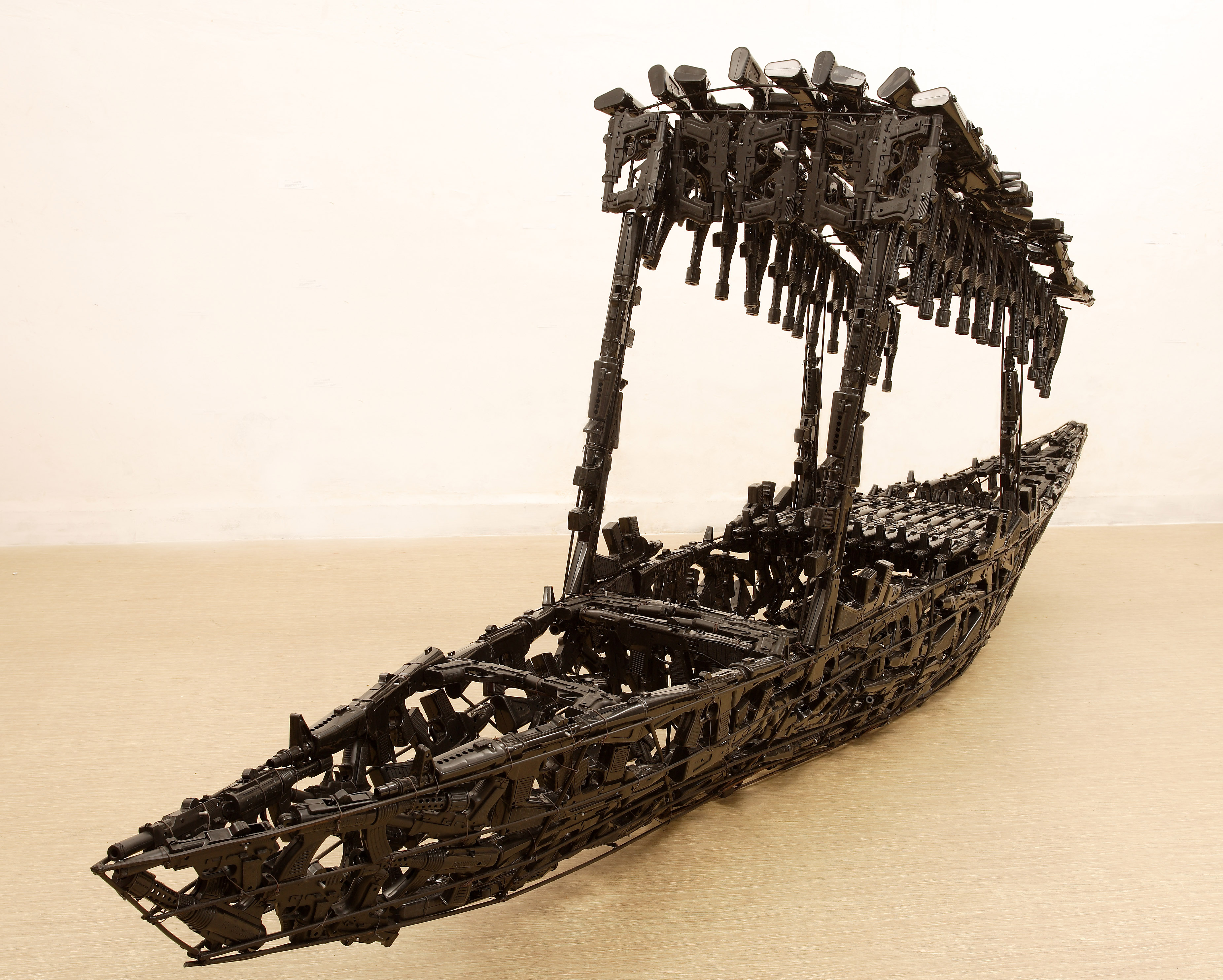 Installation view- 'Toys are us' from the exhibition : Myopia by Sunil Padwal